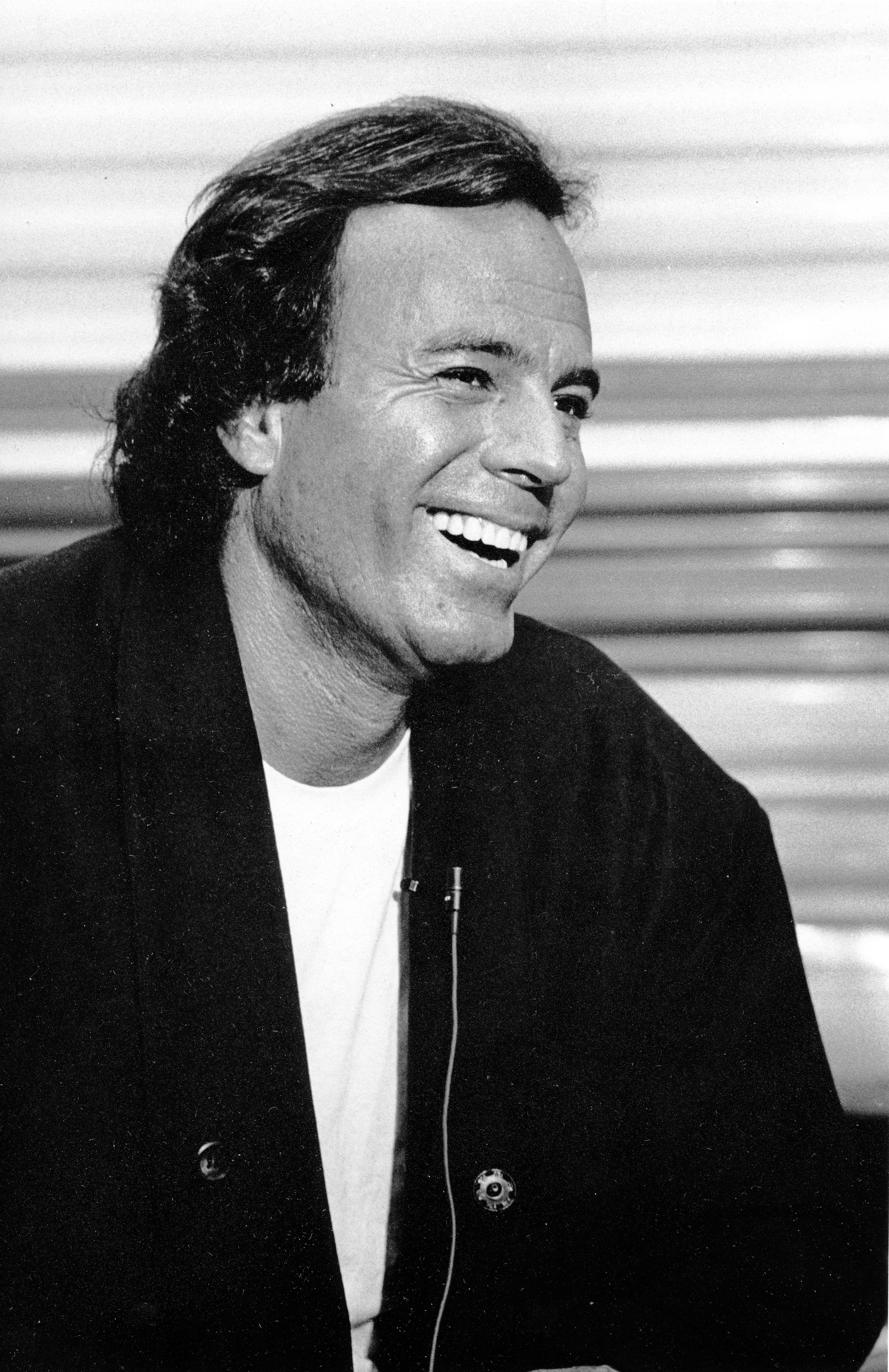 Title: Julio Iglesias Creator: Mayor's Office - City Photographer Date: circa 1984-1987 Source: Mayor Raymond L. Flynn records, Collection #0246.001 File name: RF_023 Rights: Copyright City of Boston Citation: Mayor Raymond L. Flynn records, Collection #0246.001, City of Boston Archives, Boston